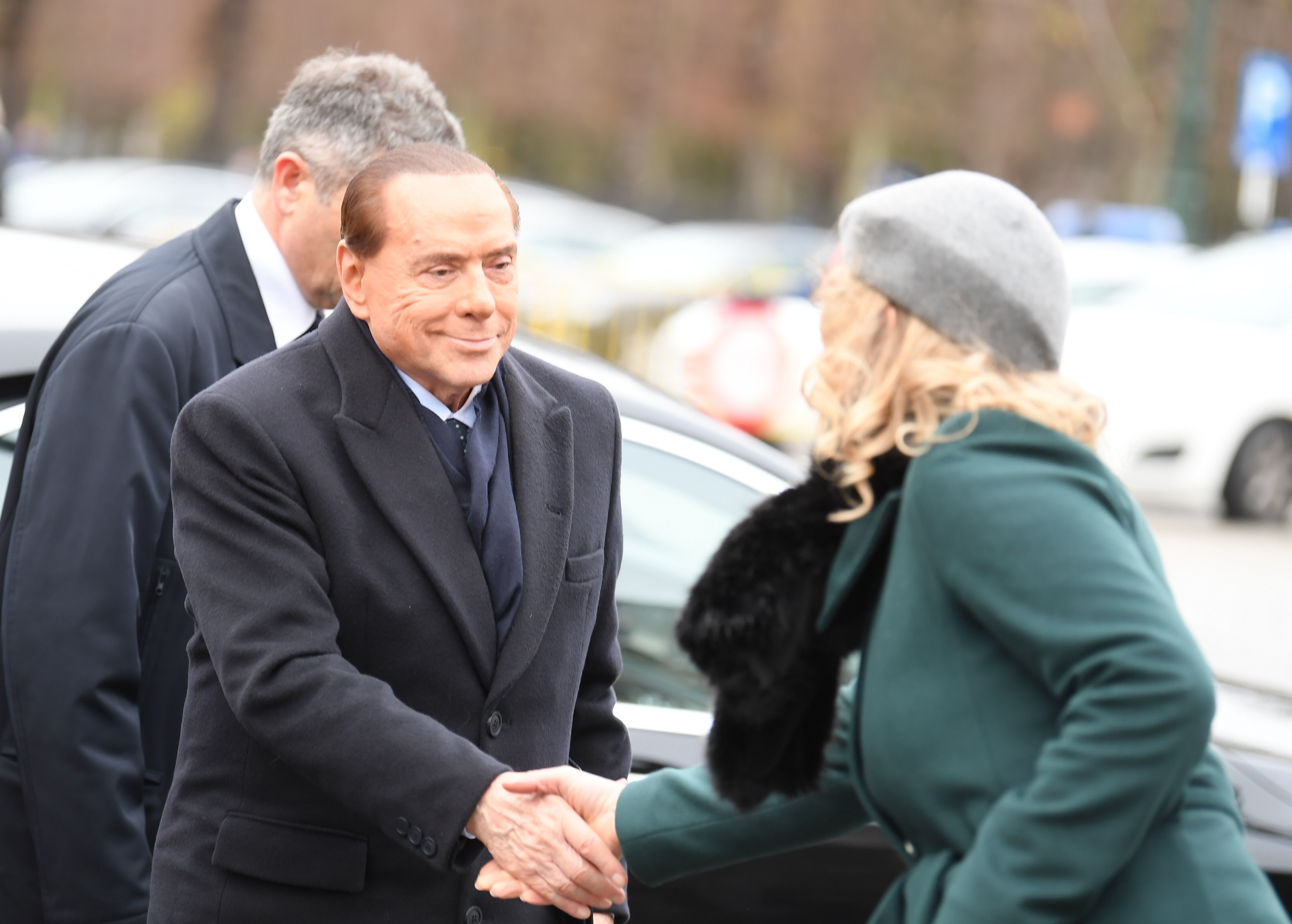 Berlusconi at the EPP summit